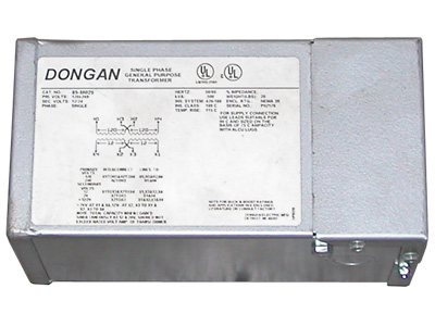 Standard buck-boost transformer for moderate raising or lowering of incoming voltage.